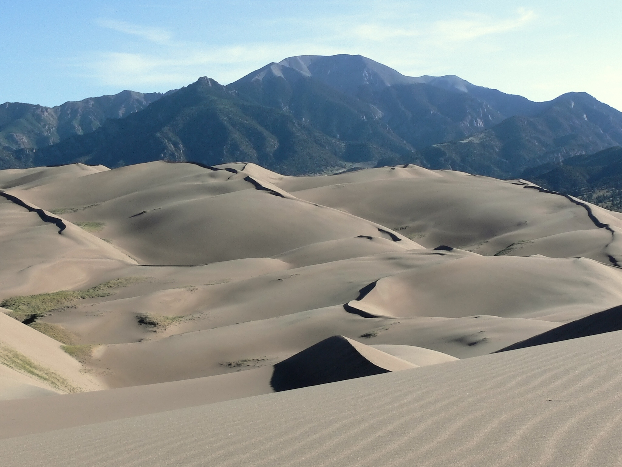 Great Sand Dunes National Park in Colorado, USA. In the background: Sangre de Cristo Mountains.